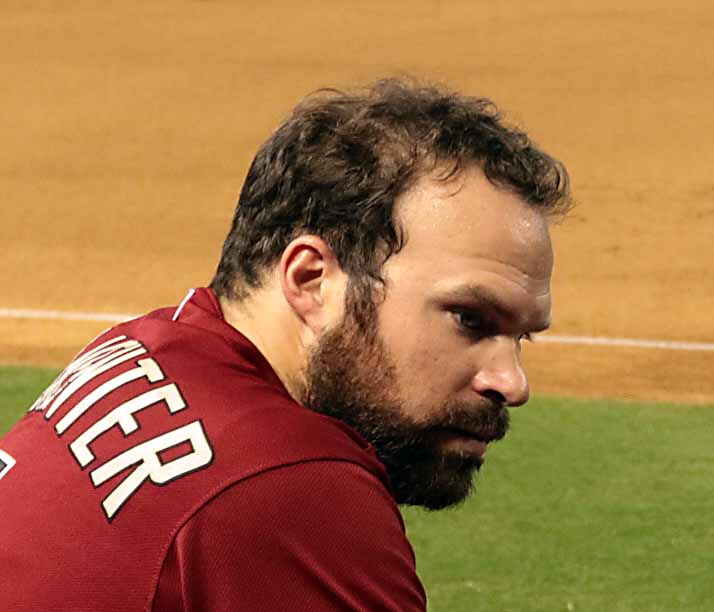 Josh Collmenter